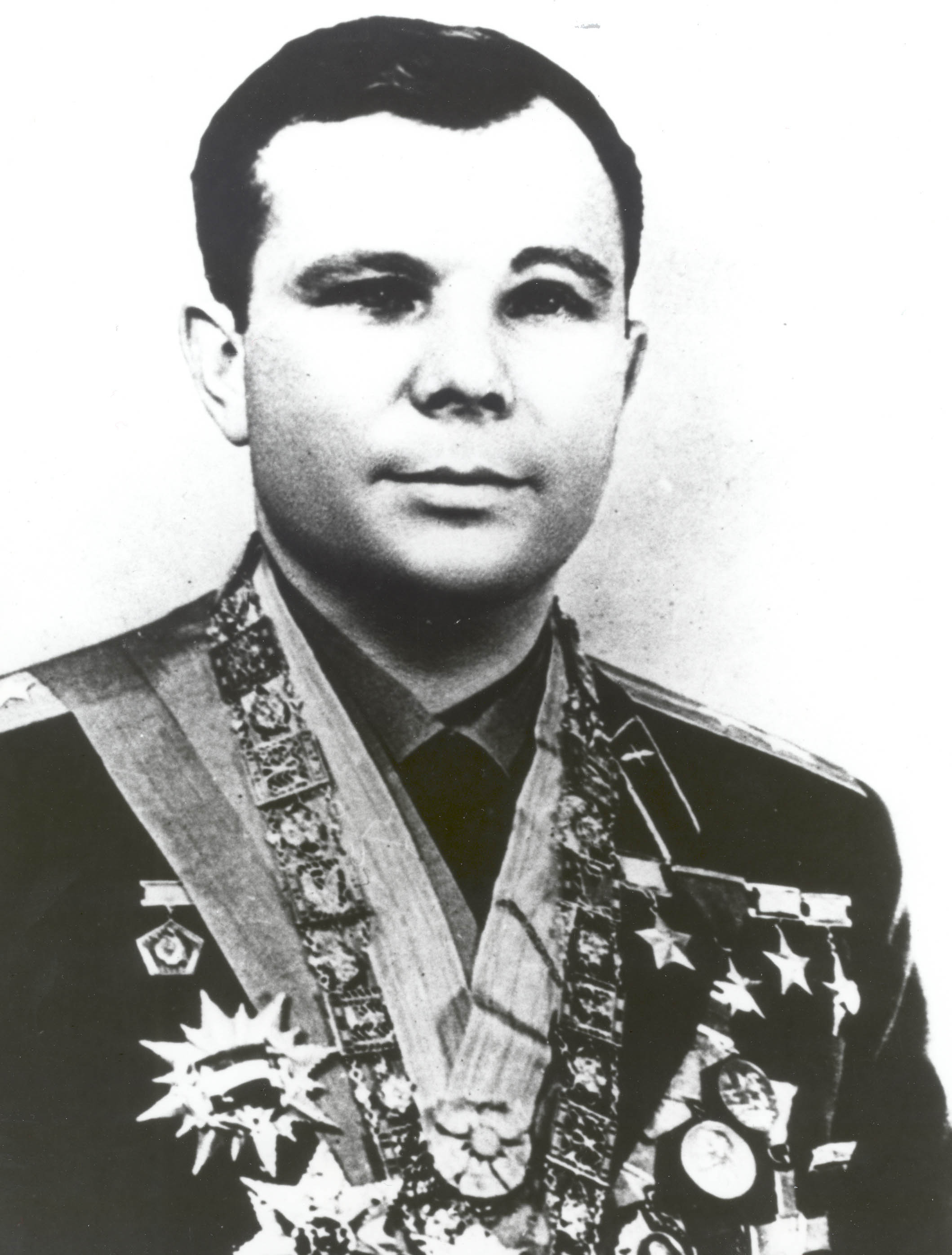 Yuri Gagarin was born on March 9, 1934 in a town outside of Moscow, Russia. After graduating from secondary school in 1949, Gagarin went to several technical schools before joining the Orenburg Higher Air Force School in 1955. He began his cosmonaut training in 1960, along with 19 other candidates. On April 12, 1961 at 9:06 am Gagarin lifted off in the Vostok 1 spacecraft and after a 108-minute flight of extended microgravity, he parachuted safely to the ground in the Saratov region of the USSR. As the first human to fly in space, he successfully completed one orbit around the Earth. After his historic flight, Gagarin became an international symbol for the Soviet space program and in 1963 was appointed deputy director of the Cosmonaut Training Center. In 1966 he served as a backup crewmember for Soyuz 1 and on February 17, 1968, completed a graduate degree in technical sciences. Tragically, during flight training in a UTI-MiG-15 aircraft on March 27, 1968, Gagarin was killed when his plane crashed. Image: yurigagarin01